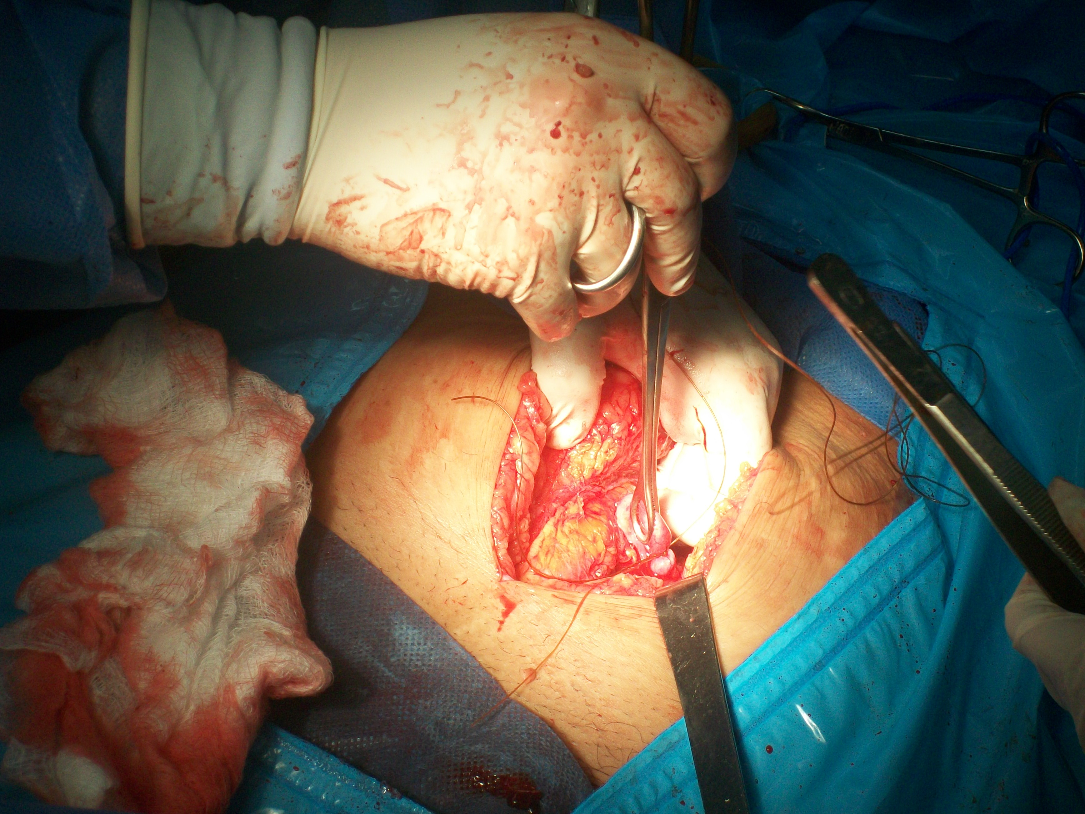 Clamping of left Fallopian tube prior to elective ligation as part of Caesarean section. Maracay, Venezuela